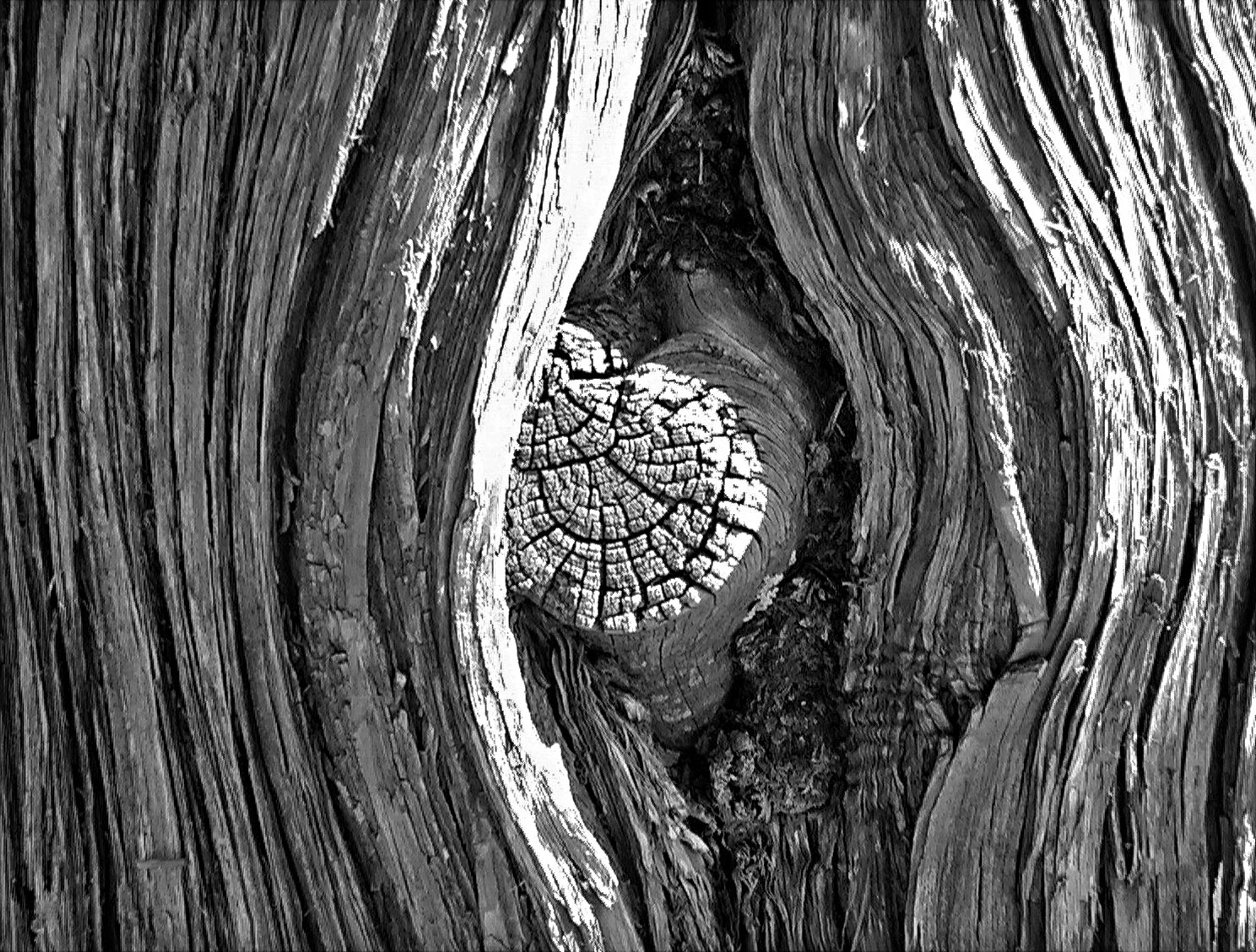 Photo taken of a tree knot at the Garden of the Gods public park in Colorado Springs, Colorado (October 2006). Photo by Peter Rimar.